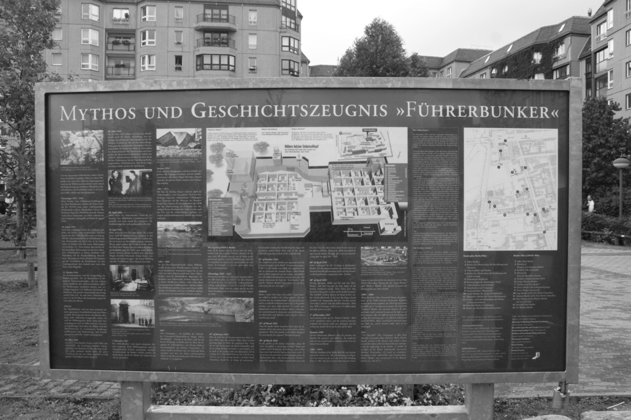 Führerbunker panel in Berlin